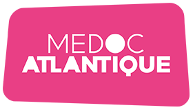 template Médoc Atlantique